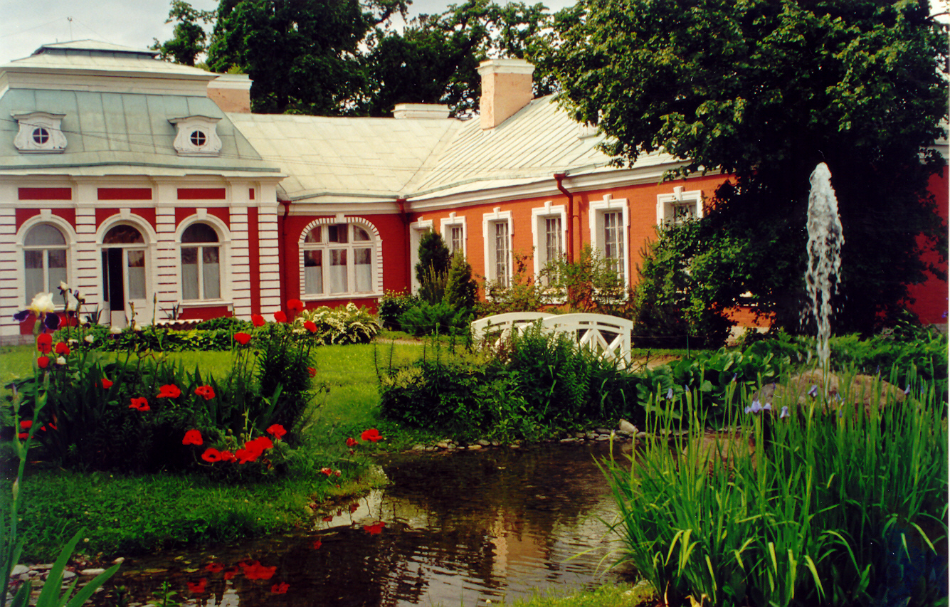 Image Saint Petersburg,Russia- Summer Palace at Peterhof - gardens with Monplaisir,Sankt Petersburg/Russland Northern Capital of magic and light